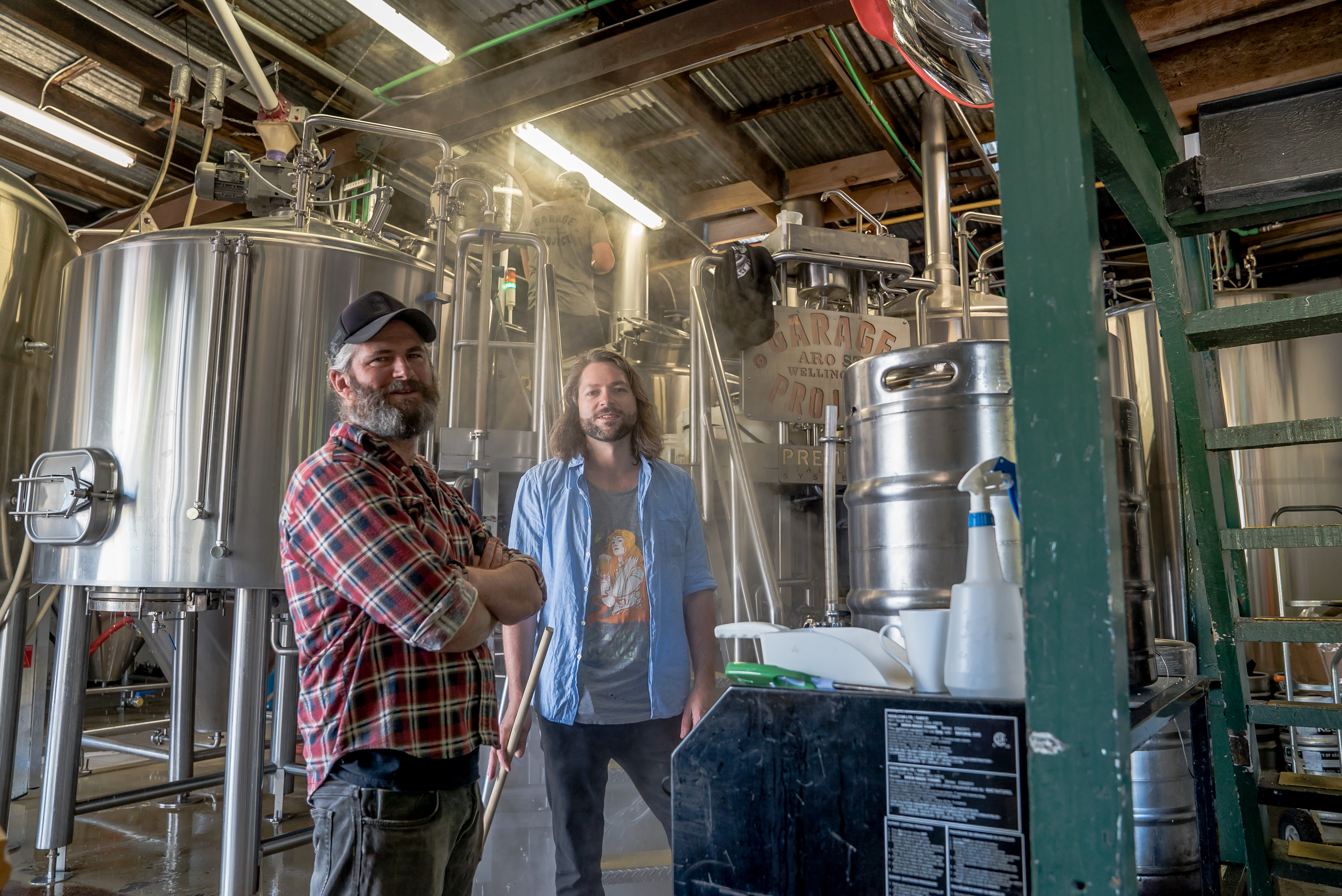 At Aro brewery